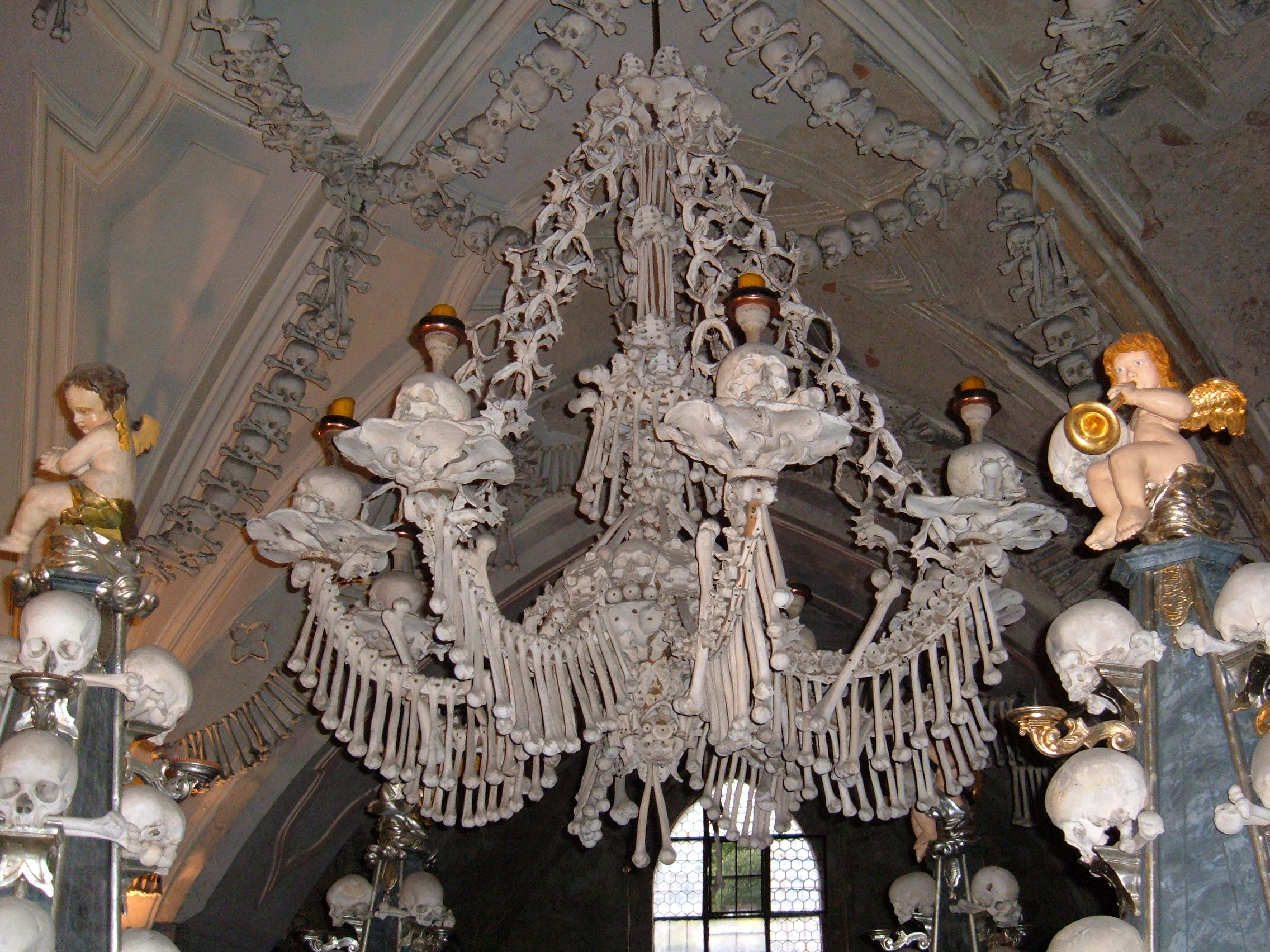 The chandelier in the Sedlec Ossuary in Kutná Hora, Czech Republic.